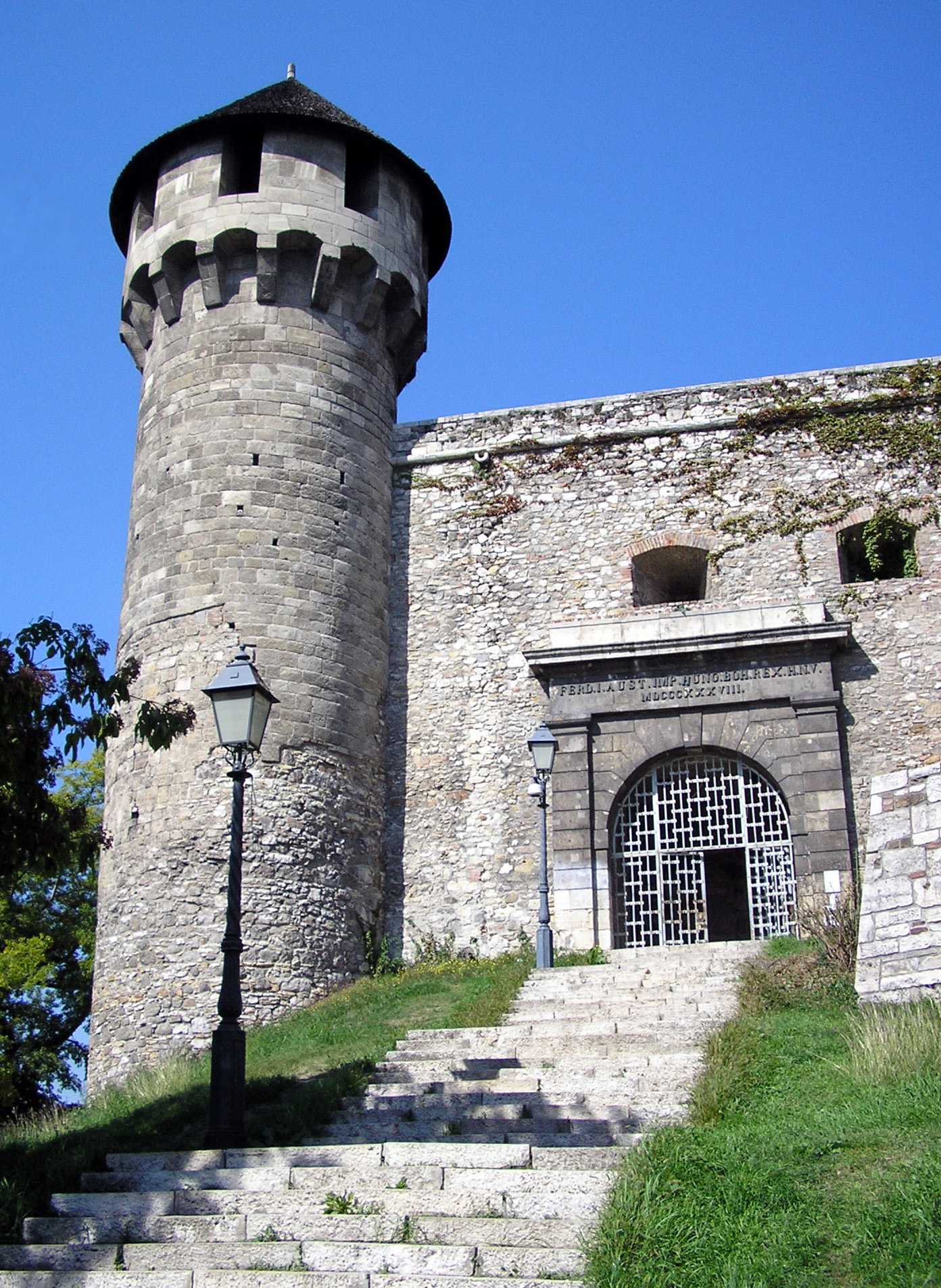 A tower in the Buda Castle (Budapest)